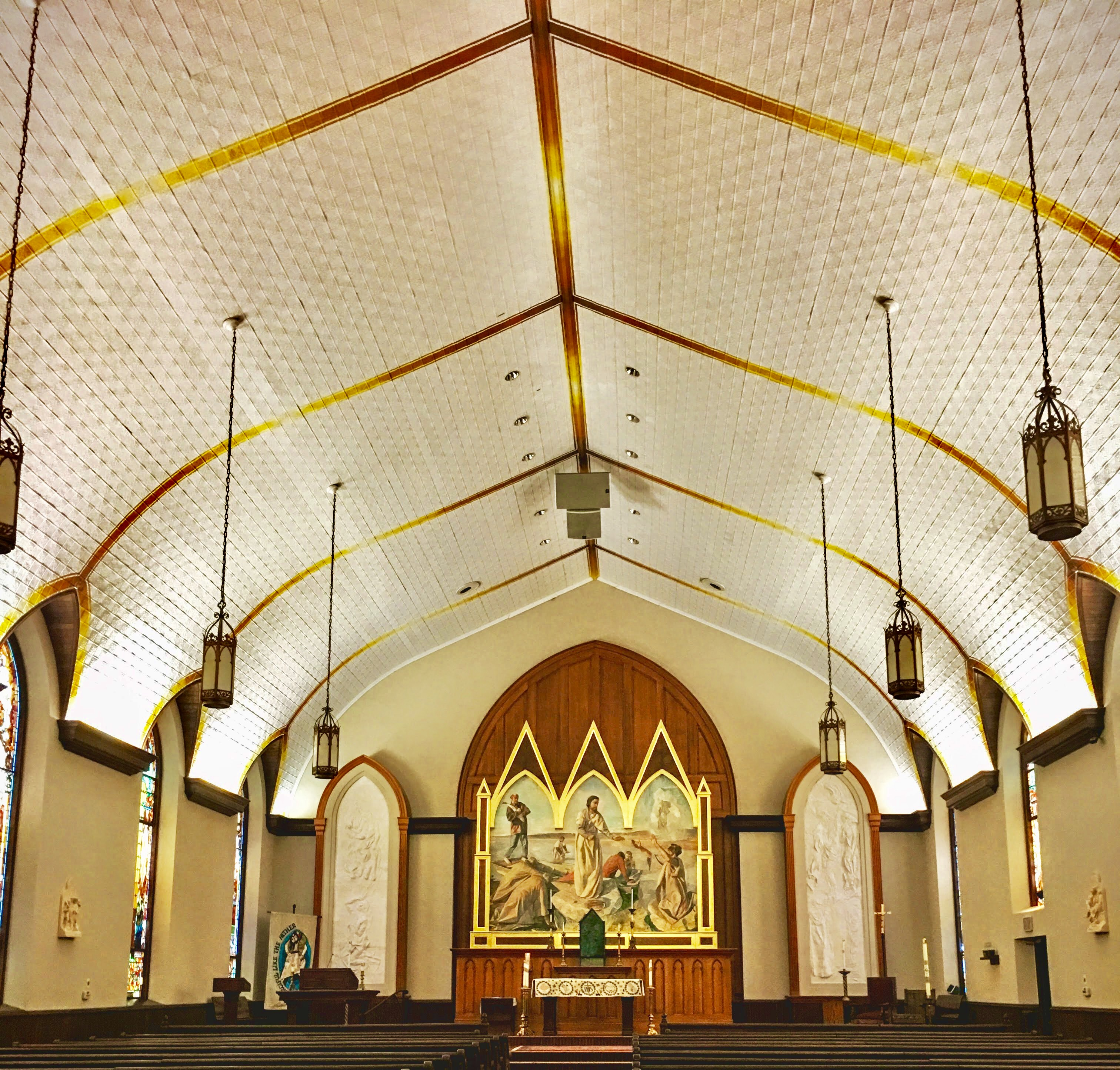 An oldest Roman Catholic Church and oldest surviving edifice on Tyron Street in Charlotte, North Carolina